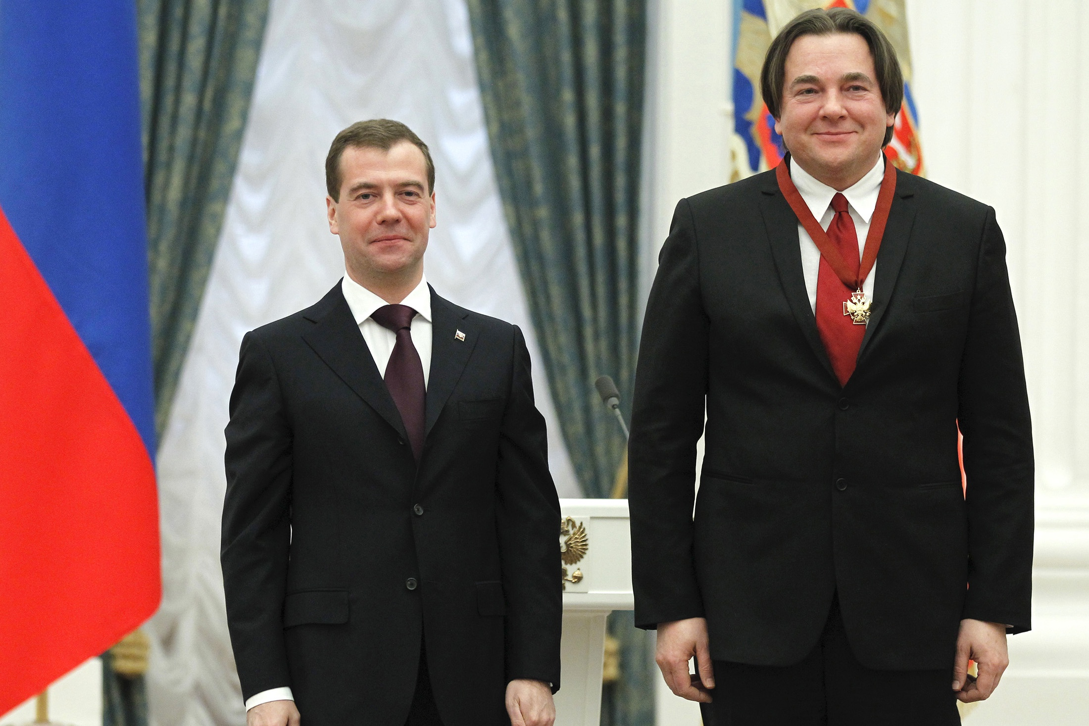 Dmitry Medvedev and Konstantin Ernst. Moscow, Kremlin. 21 feb 2011.